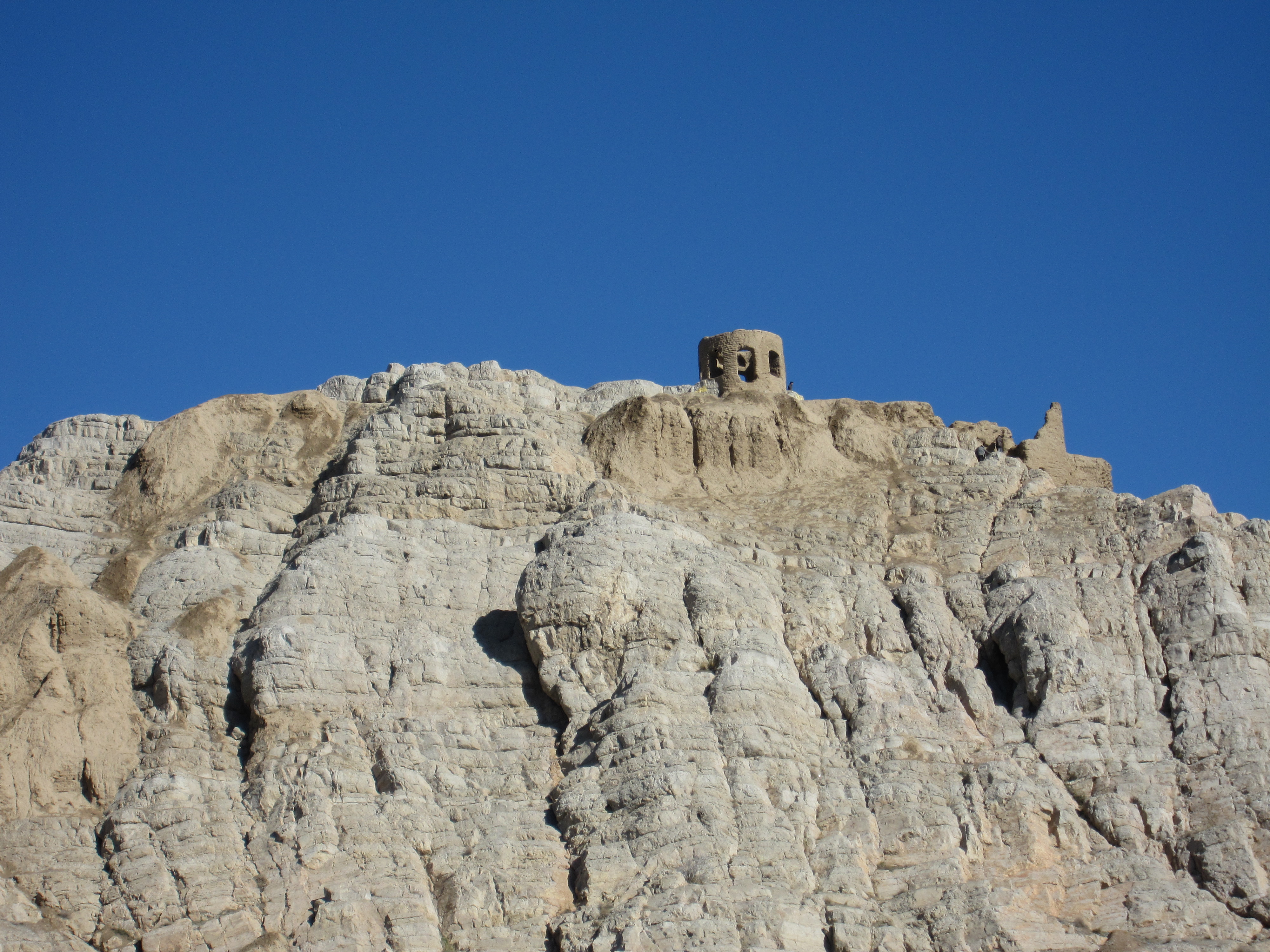 Atashgah, Isfahan, Iran